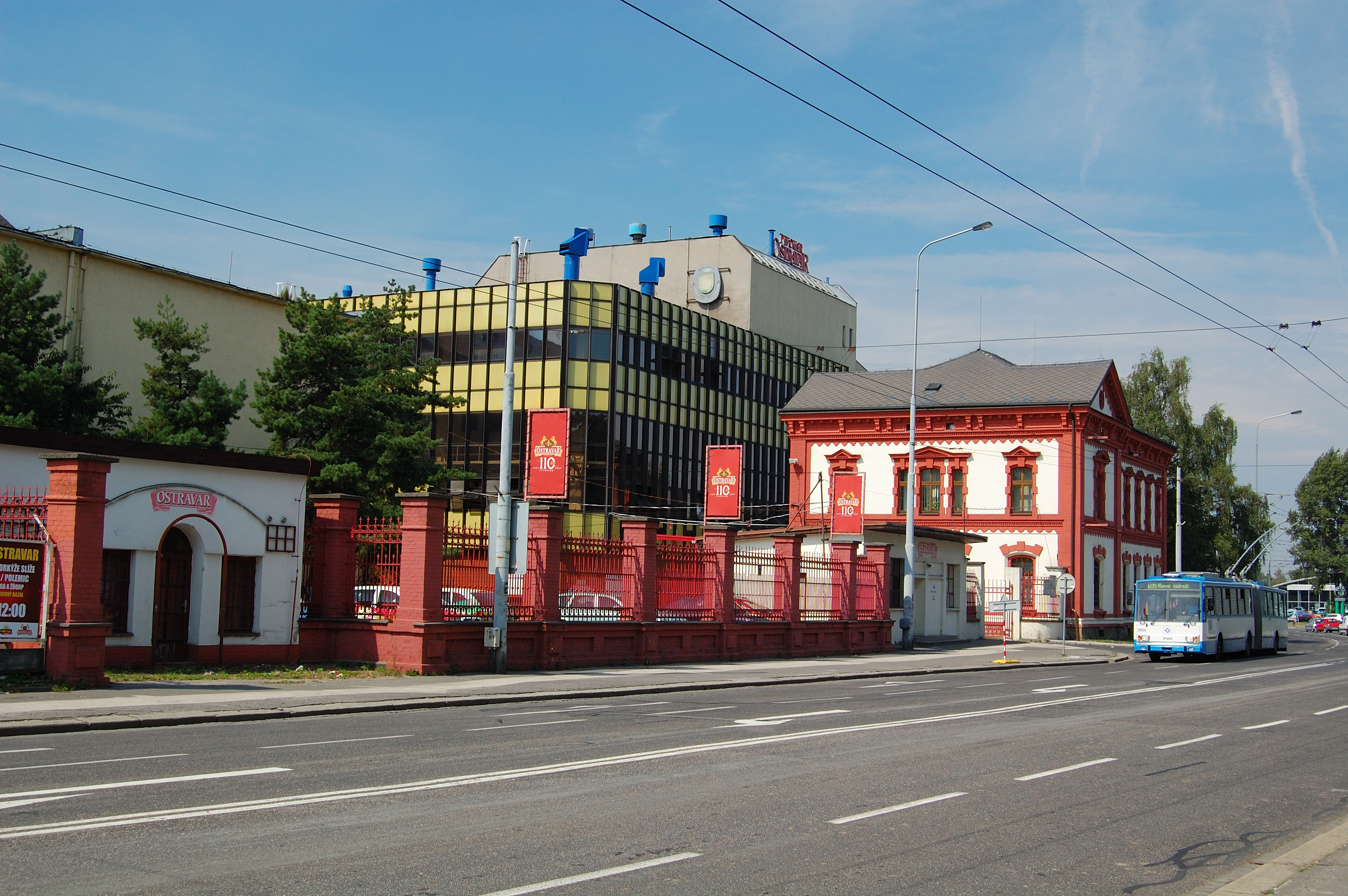 Ostravar brewery in Ostrava, Czech Republic.